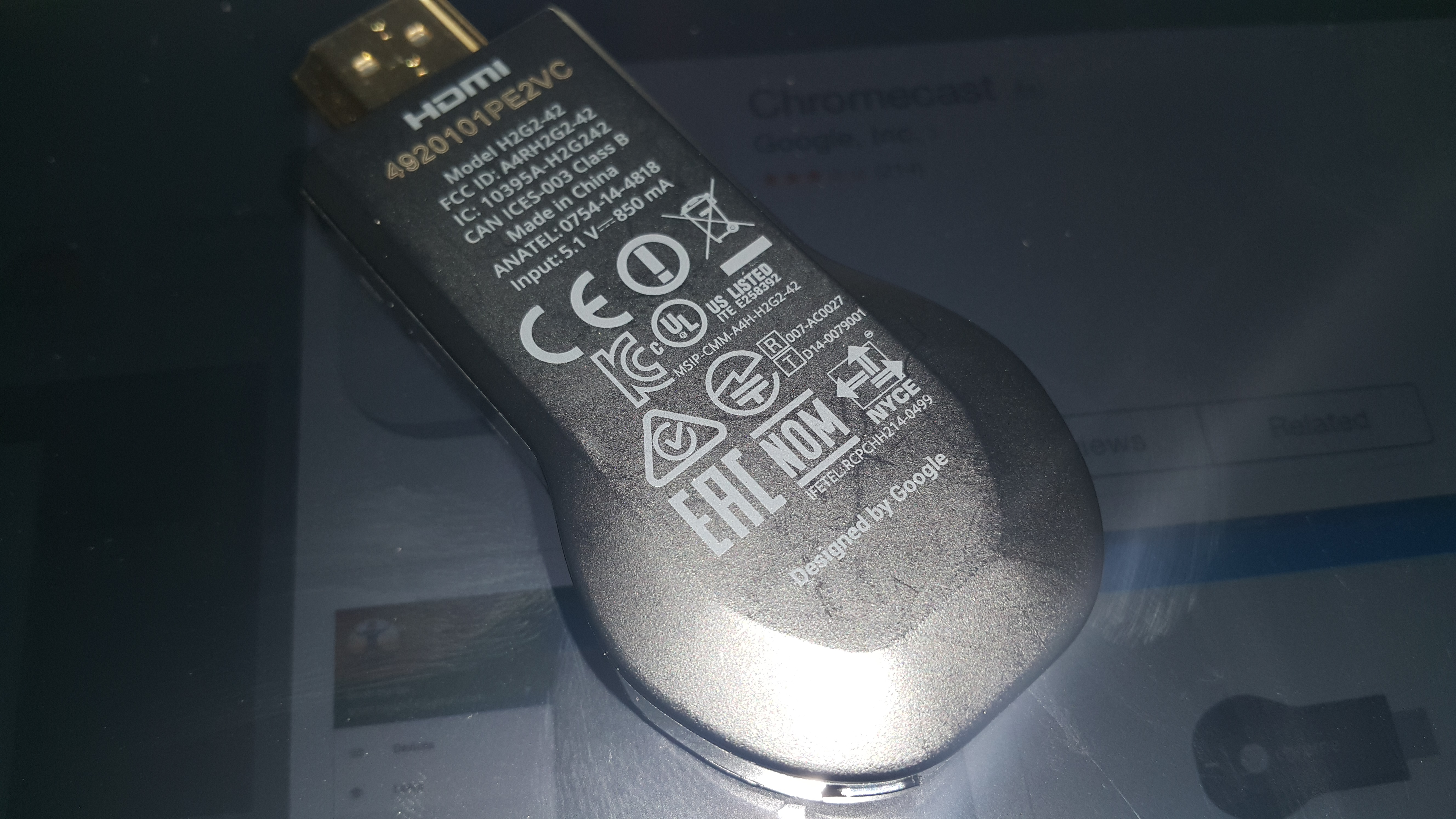 Chromecast